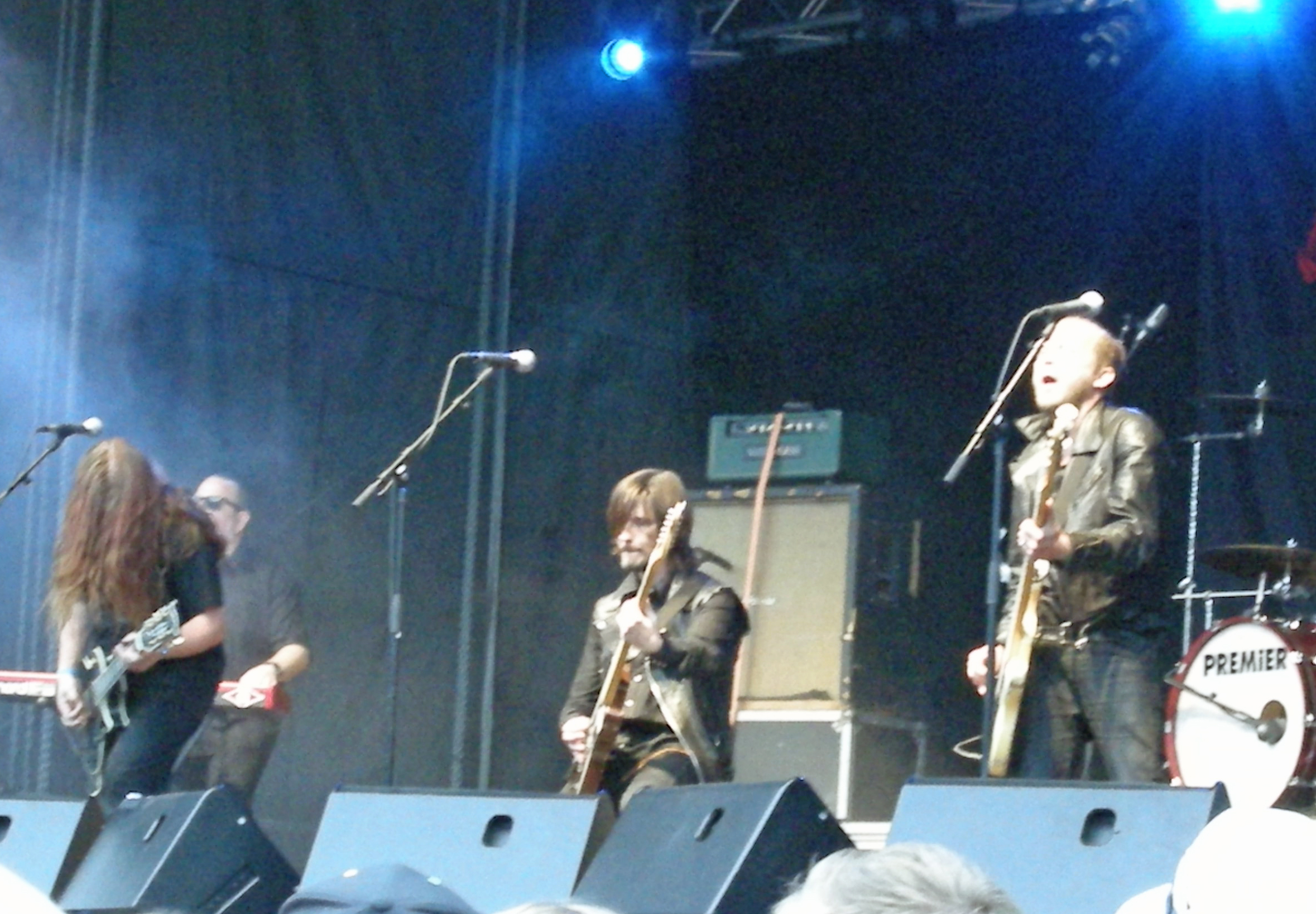 Swedish rock band Sator at Skogsröjet 2012